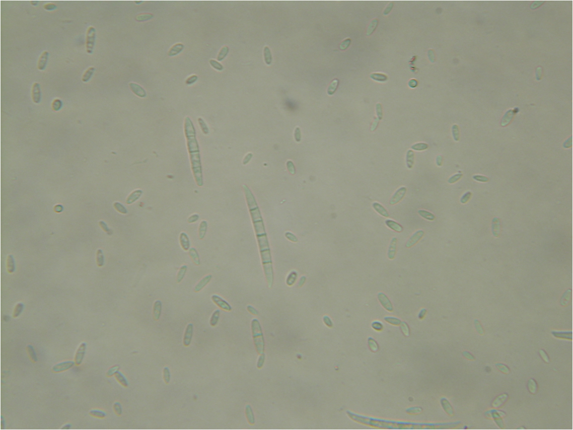 Fusarium macroconidia (banana-shaped) and microconidia (small ovals) magnified 160X. Identified using Barnett, H. L. & Hunter, B. B. (1998) Illustrated Genera of Imperfect Fungi. APS Press: St. Paul, MN; pp. 130–1 ISBN 0-89054-192-2. Recovered from green bean (Phaseolus vulgaris L.). Host status confirmed using Farr, D. F., Bills, G. F., Chamuris, G. P., & Rossman, A. Y. (1995) Fungi on Plants and Plant Products in the United States. APS Press: St. Paul, MN; pp. 209–11 ISBN 0-89054-099-3.